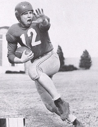 Nebraska Cornhuskers football All-American Bobby Reynolds